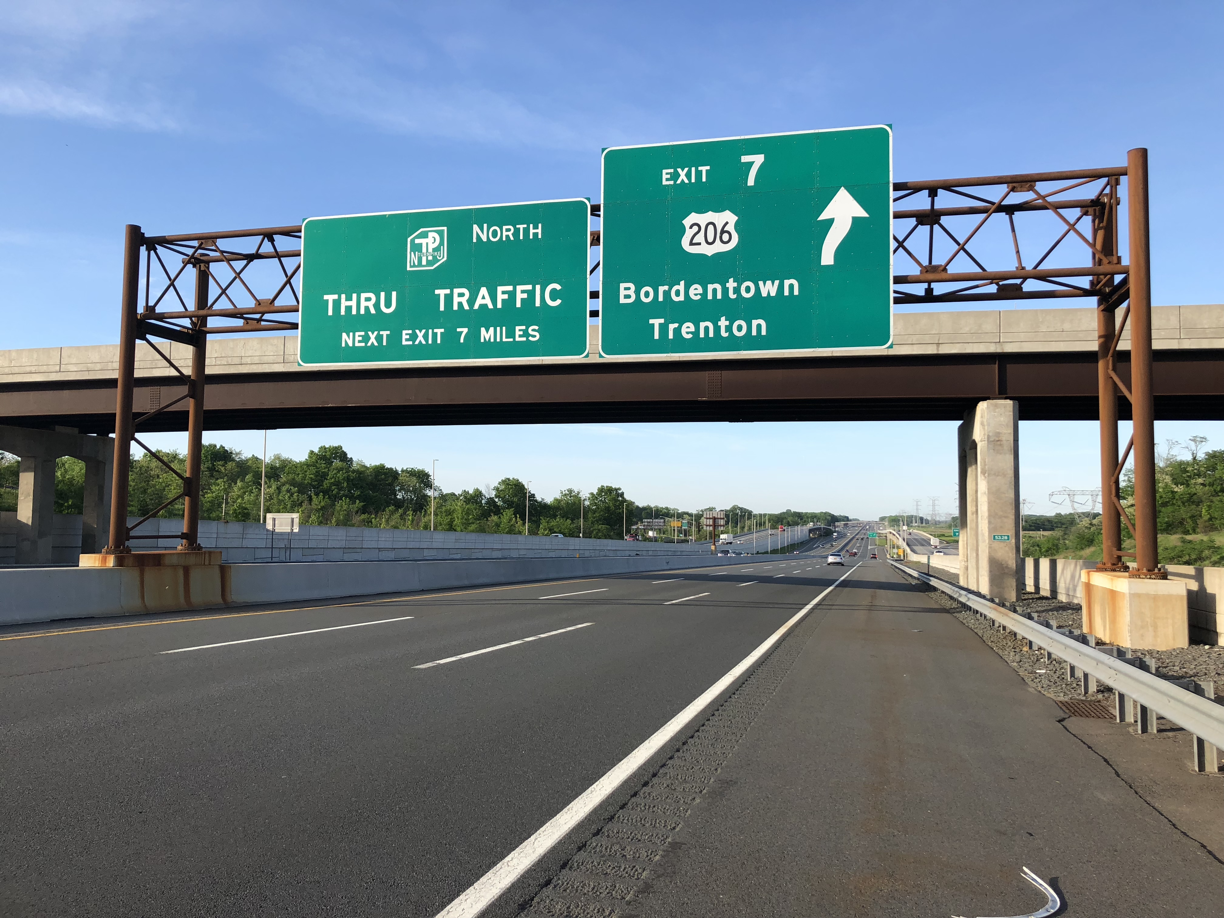 View north along Interstate 95 (New Jersey Turnpike) at Exit 7 (U.S. Route 206, Bordentown, Trenton) in Bordentown Township, Burlington County, New Jersey